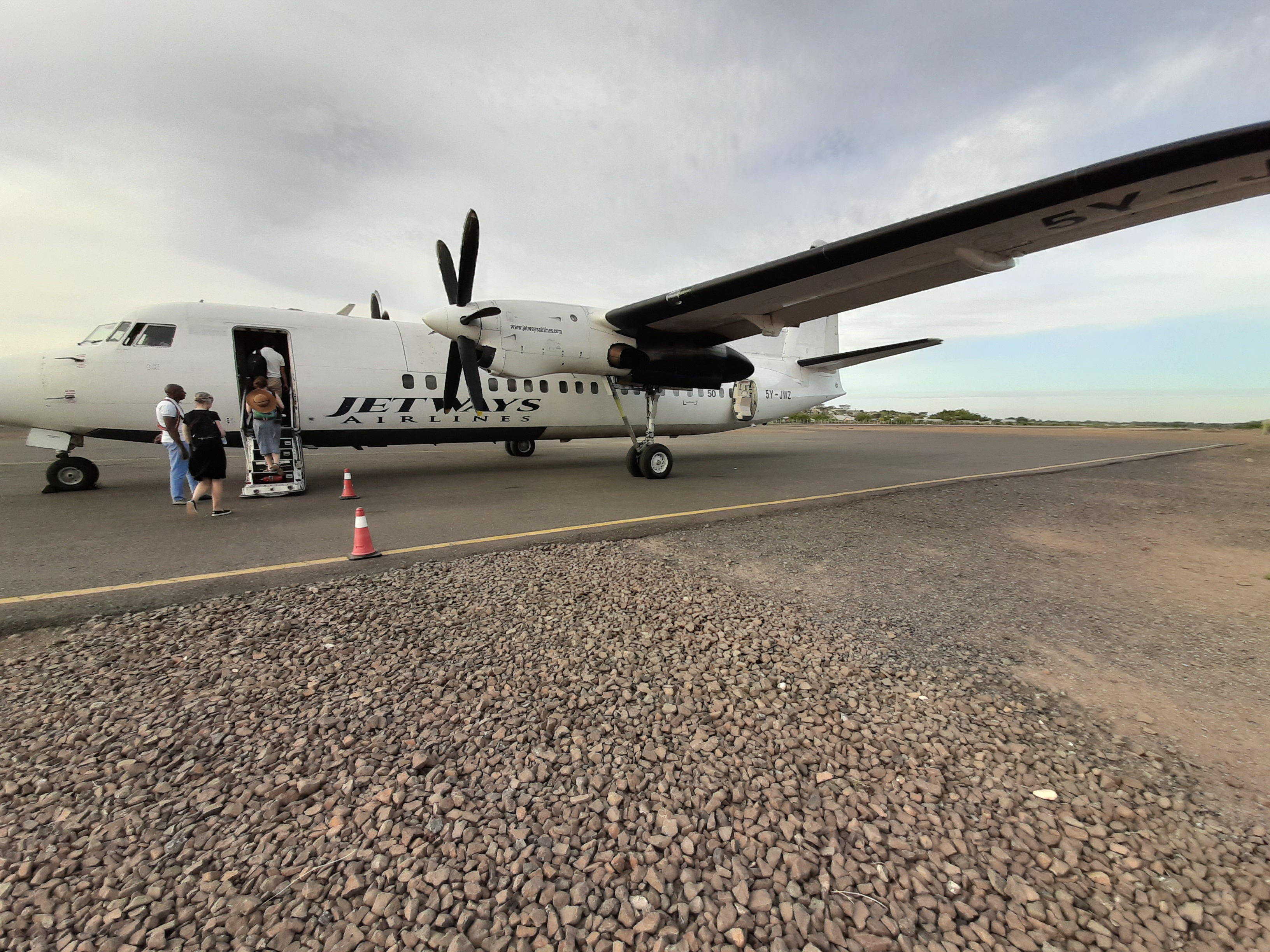 This is an image with the theme "Africa on the Move or Transport" from: Kenya